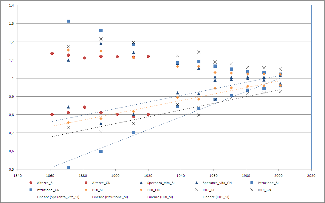 Italian comparative indicators of social development North vs. South (datas derived from E. Felice 2007 research)